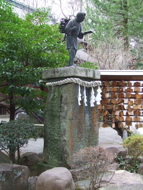 Statue of Ninomiya Sontoku,Hotoku Ninomiya Shrine,Odawara,Kanagawa,Japan